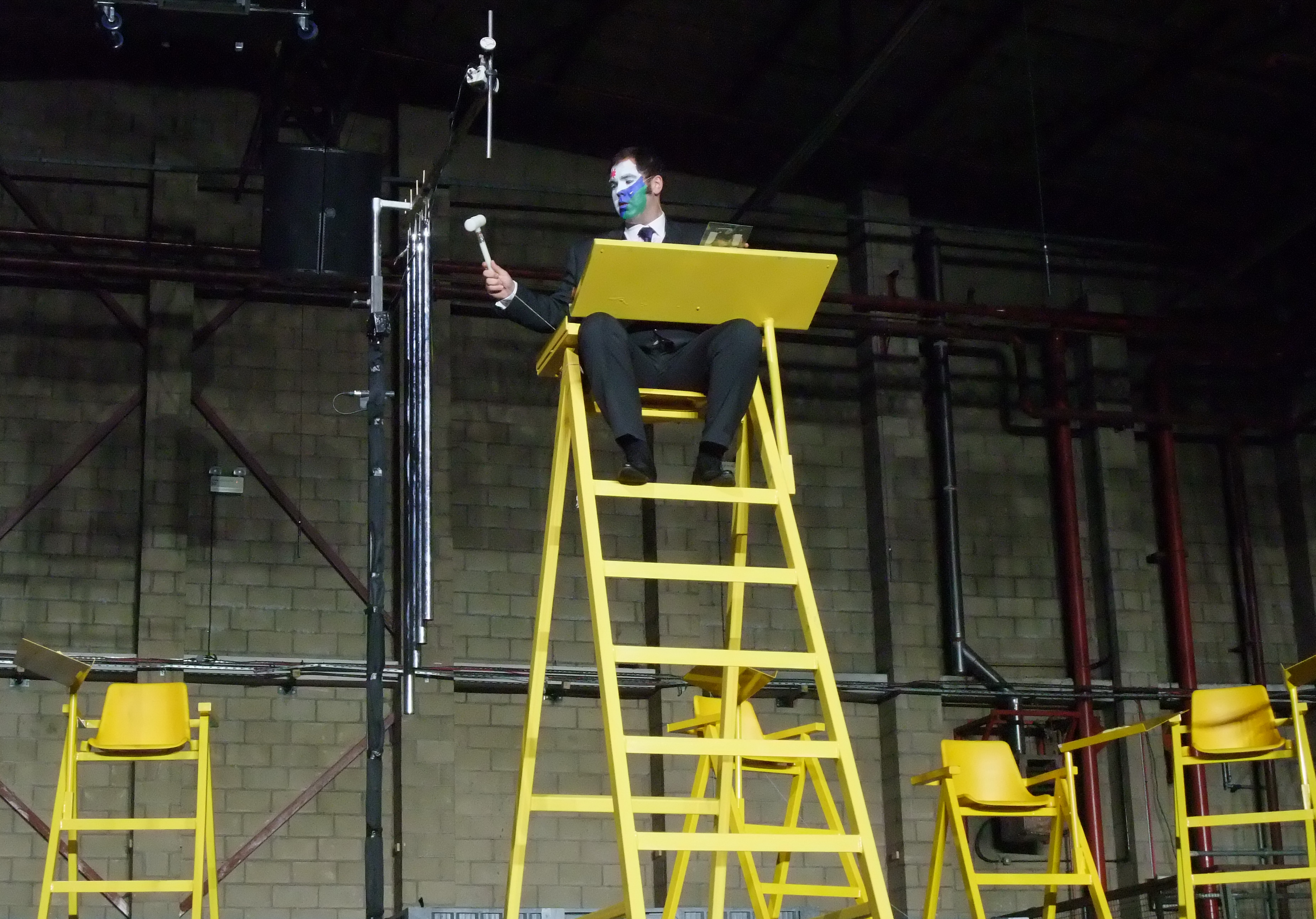 The beginning of the first scene, World Parliament, from Karlheinz Stockhausen's opera Wednesday from Light. Birmingham Opera, Friday, 24 August 2012, Argyle Works, Digbeth, Birmingham. The President (Ben Thapa) calls the World Parliament into session. He announces the debate: Worhorld Parliament: love is our issue here. Photograph by Jerome Kohl.